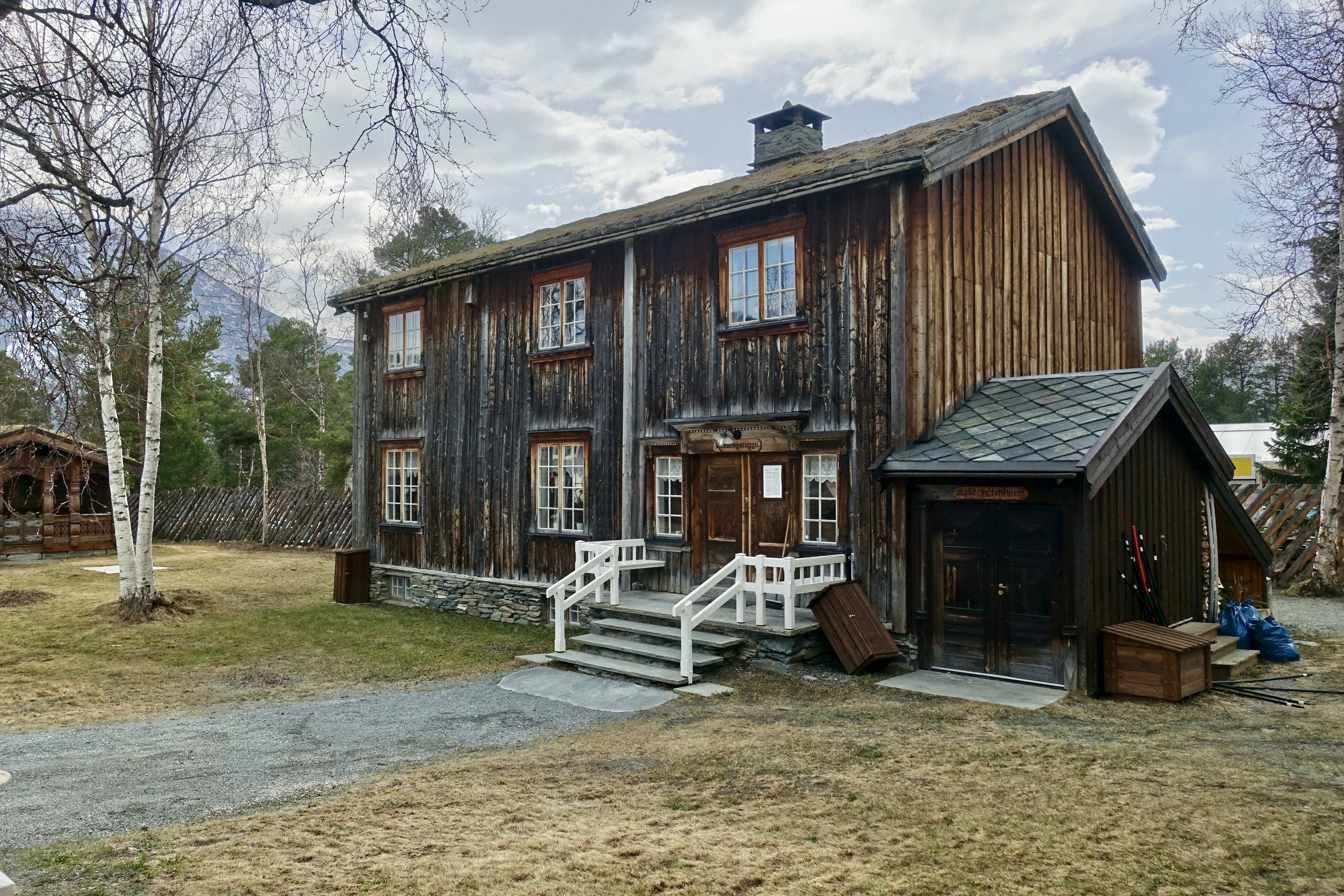 Hokseng-stuggu, a log house and farm cottage build around 1800, now re-erected at The Oppdal Museum (in Norwegian: Oppdalsmuseet or Oppal bygdemuseum), a local history museum in Oppdal Municipality in Trøndelag County, Norway. The open-air museum near downtown Oppdal shows around 30 log buildings dating back to 1500 into the mid 1900’s, such as farm dwellings, barns, storage-houses, mills, smithy, hunting cabins, summerhouse, telephone office, ski-workshop and more. Photo taken on a spring day in April 2019.